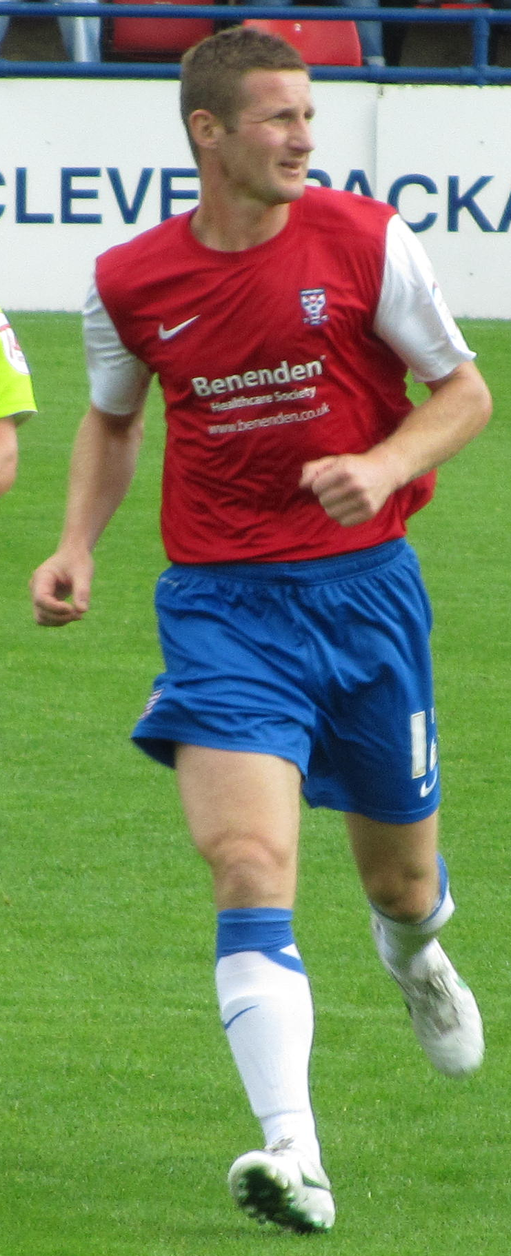 Lee Bullock